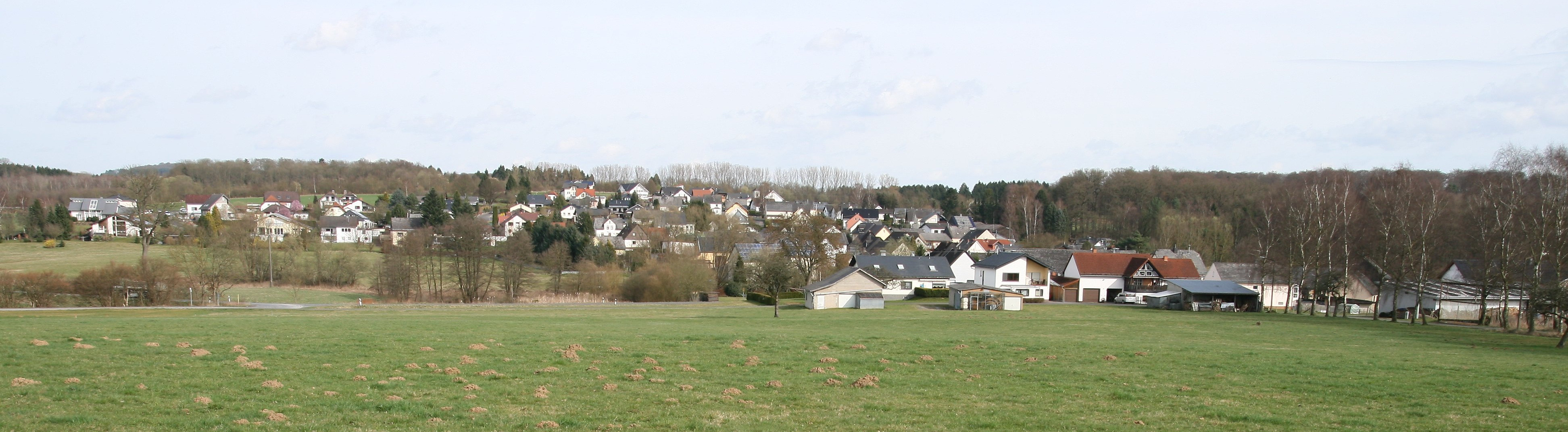 View over the village Goddert, Westerwald, Germany from west.